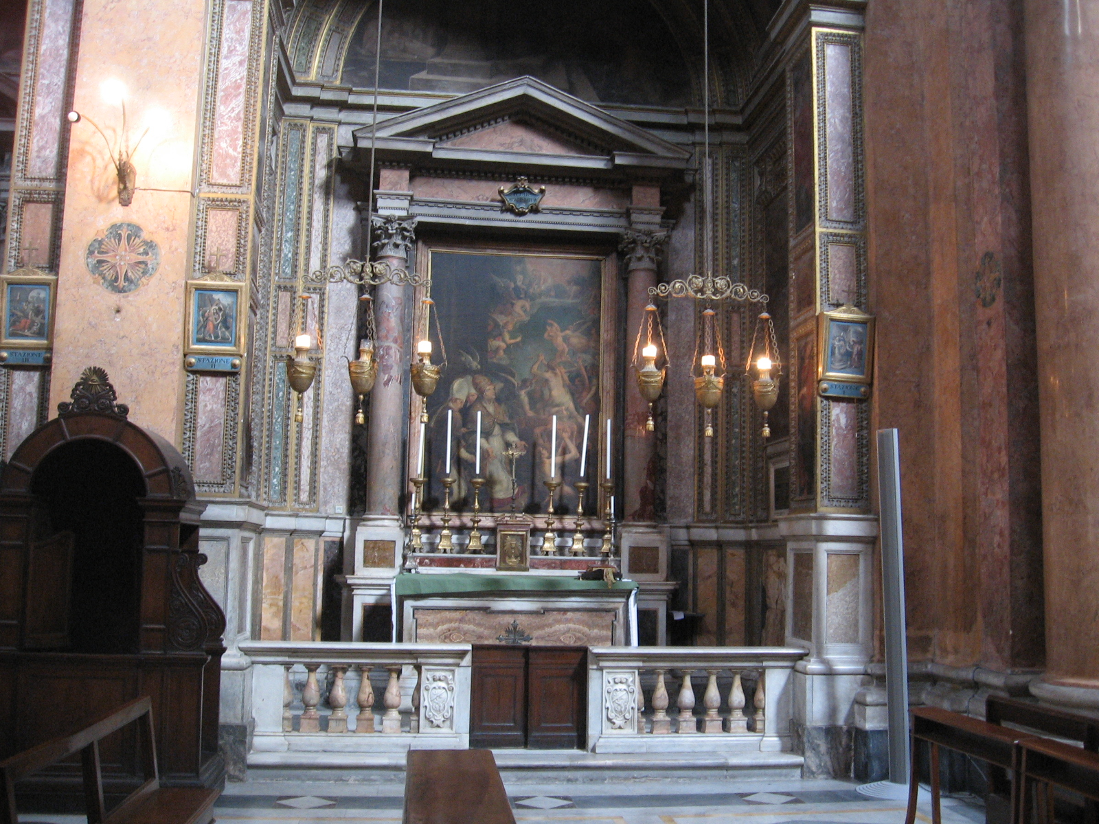 Church of Santissima Trinità sei Pellegrini, Rome - Altar of St. Gregory